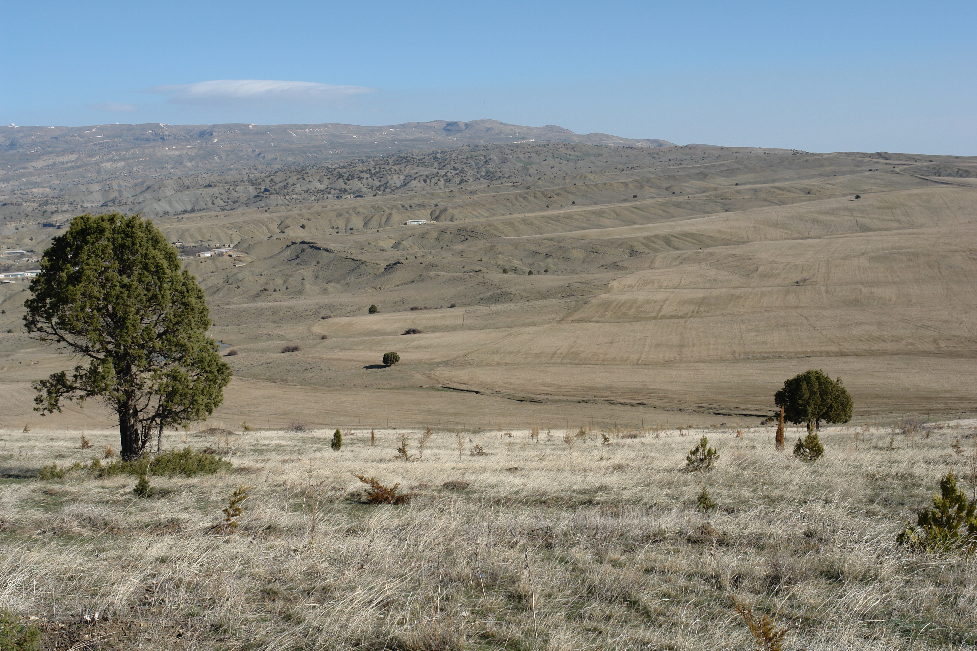 A typical open woodland in Nohur area. A view from Kone-Gummez village over Hohur-Kone-Gummez area, 15 March 2008.